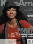 Magazine cover of KoreAm from November 2008 featuring Actress Smith Cho